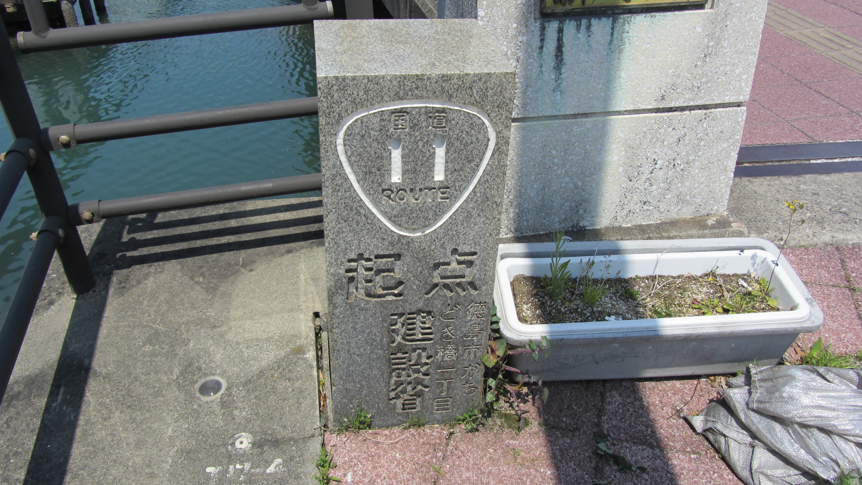 徳島市 道路元標